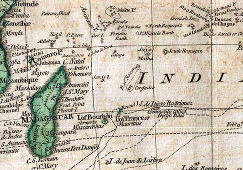 Section of Samuel Dunn Map centered on the Nazareth Bank